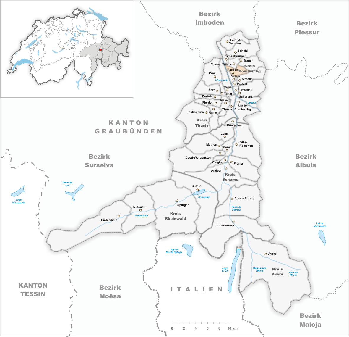 Municipality Paspels